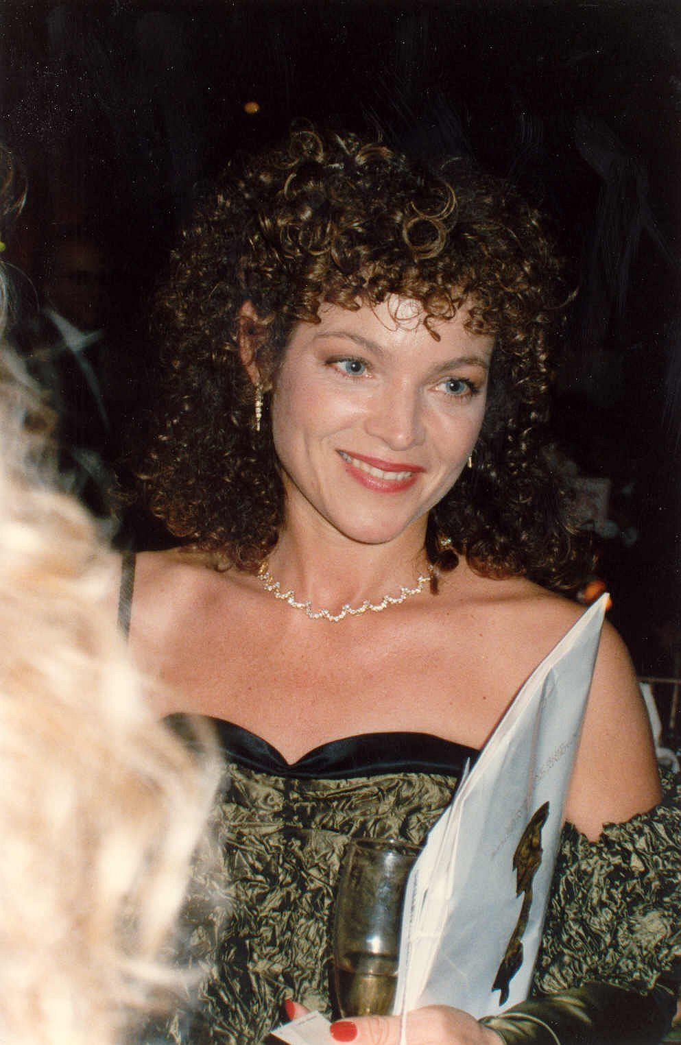 Amy Irving at the Governor's Ball party after the 1989 Academy Awards, March 29, 1989